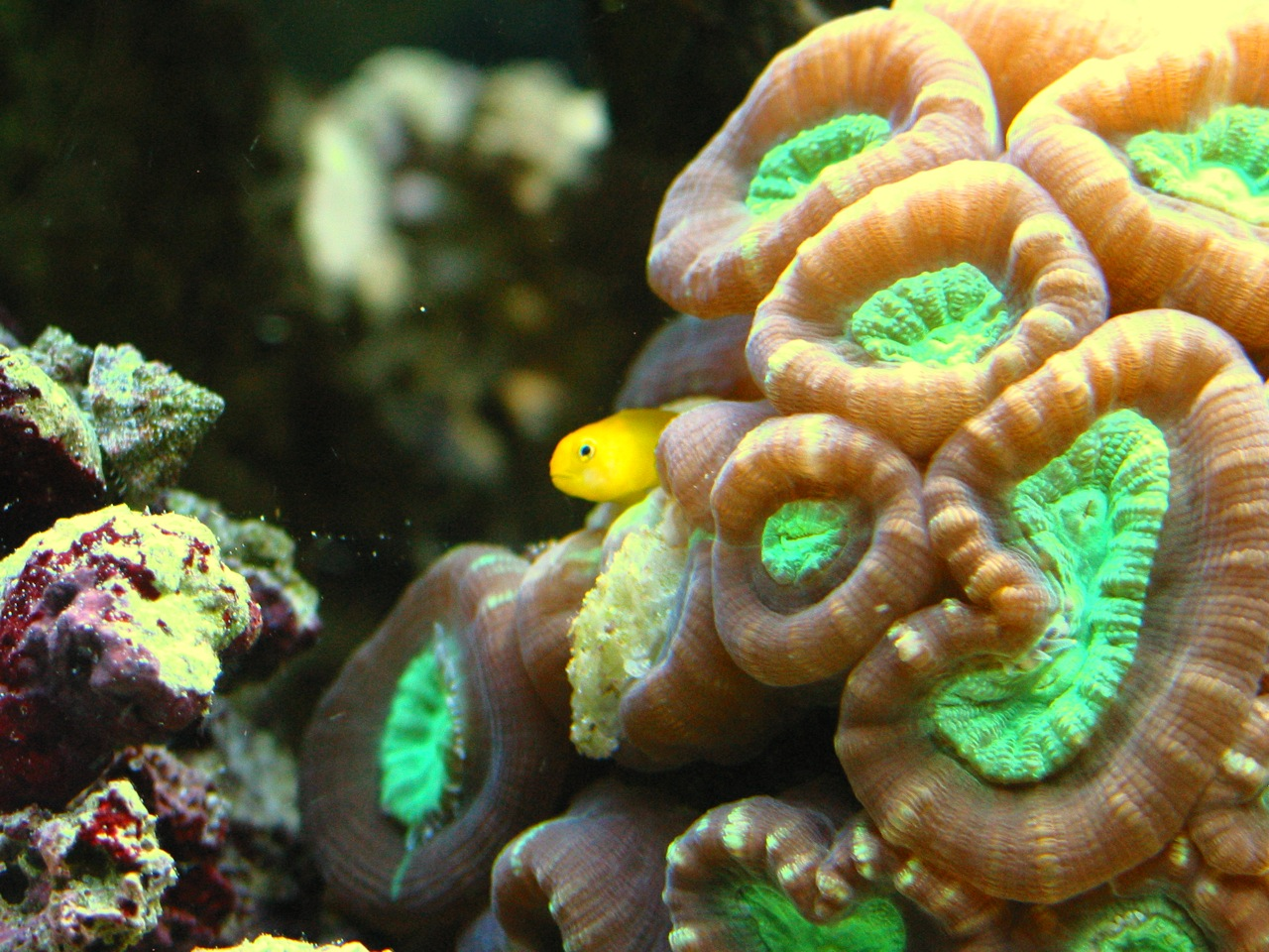 Gobiodon okinawae, a Yellow Clown Goby hiding in a Candy Cane Coral